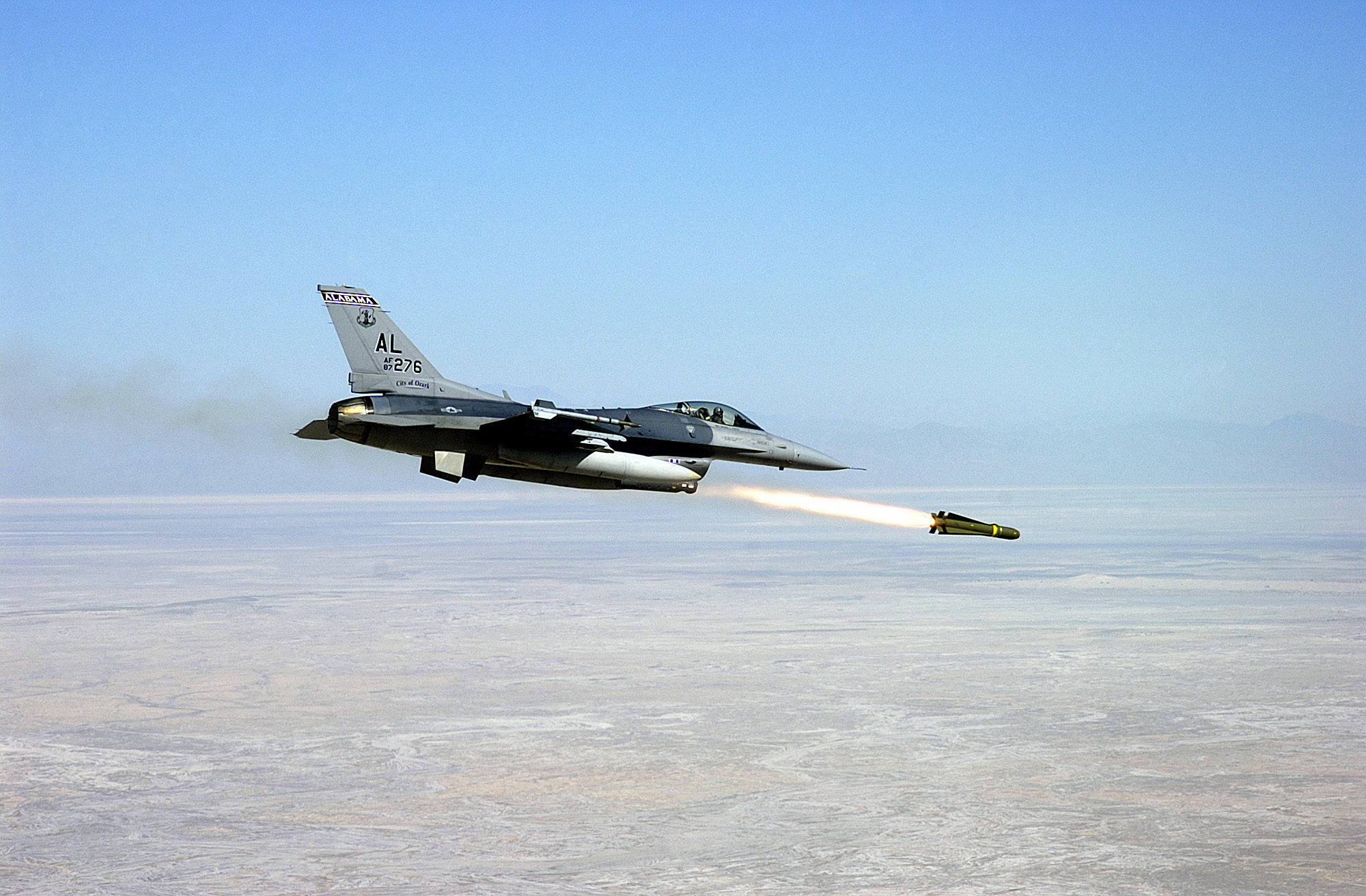 A US Air Force (USAF) F-16C Fighting Falcon aircraft assigned to the 160th Fighter Squadron (FS), 187th Fighter Wing (FW), Alabama (AL) Air National Guard (ANG), fires an AGM-65D Maverick air-to-ground missile over the Utah Test and Training Range, during exercise Combat Hammer, a Weapons System Evaluation Program, hosted by the 83rd Fighter Weapons Squadron located at Tyndall, AFB, Florida (FL).